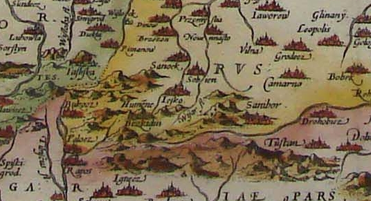 "Poloniae finitimarumque locorum descriptio". One piece Małopolskie district map of Wacław Grodecki, from "Theatrum orbis terrarum" by Abraham Ortelius. Antwerpen 1579.